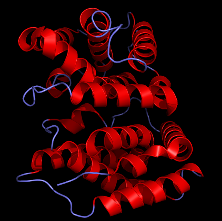 This is the crystal structure to human Interleukin-22. I accessed the data from the Protein Data Bank (PDB: 1M4R) and rendered it using Pymol. For the original data, see: Nagem, R.A.P., Colau, D., Dumoutier, L., Renauld, J.-C., Ogata, C., Polikarpov, I. Crystal Structure of Recombinant Human Interleukin-22 Structure v10 pp.1051-1062 , 2002